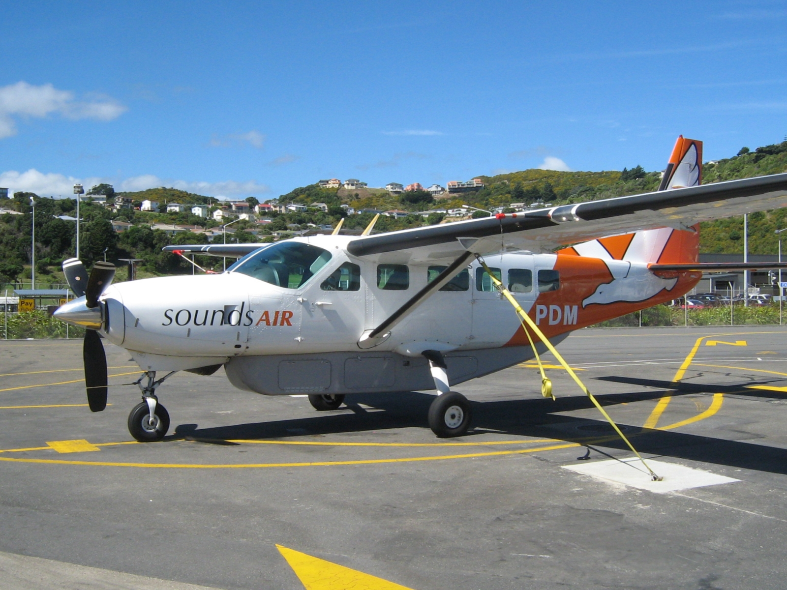 A Sounds Air aircraft seen at Wellington International Airport, New Zealand.